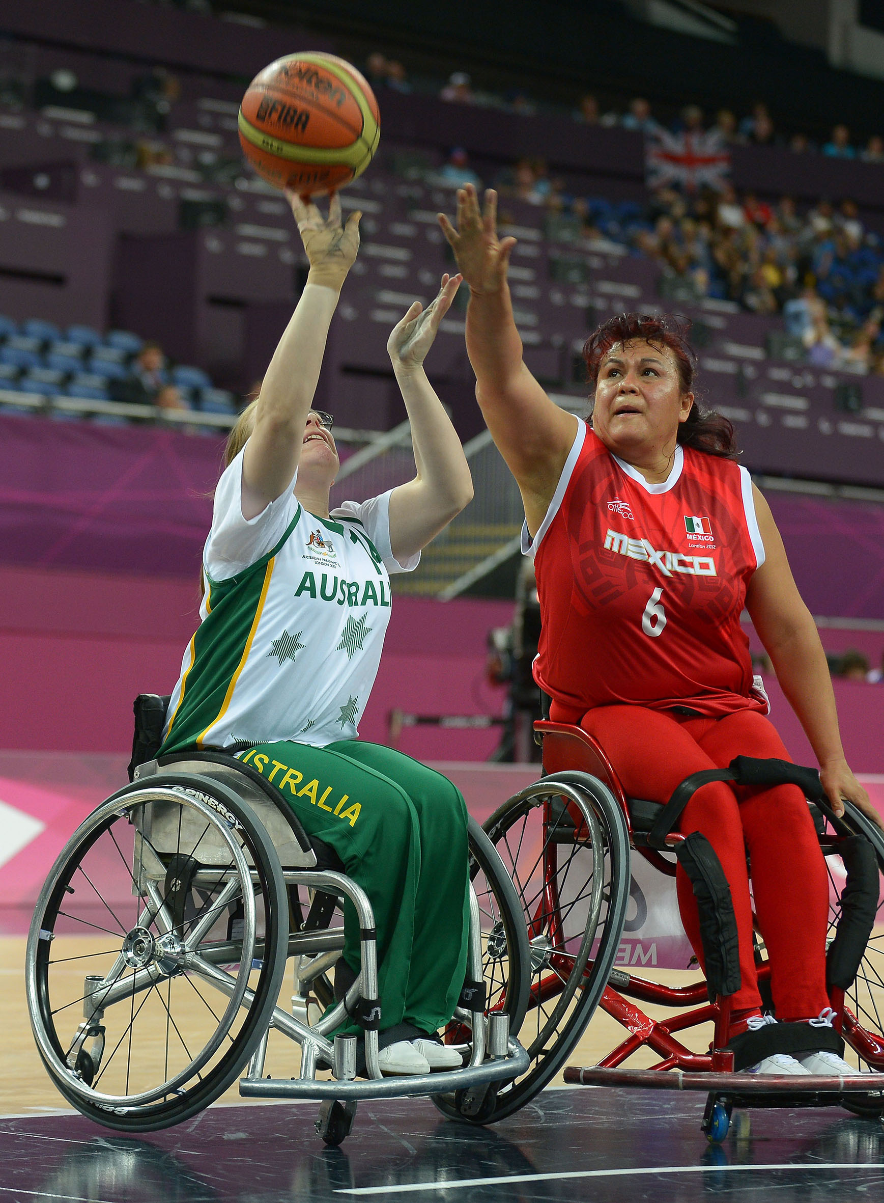 Photograph of Australian Paralympic team member Katie Hill at the 2012 Summer Paralympic Games in London